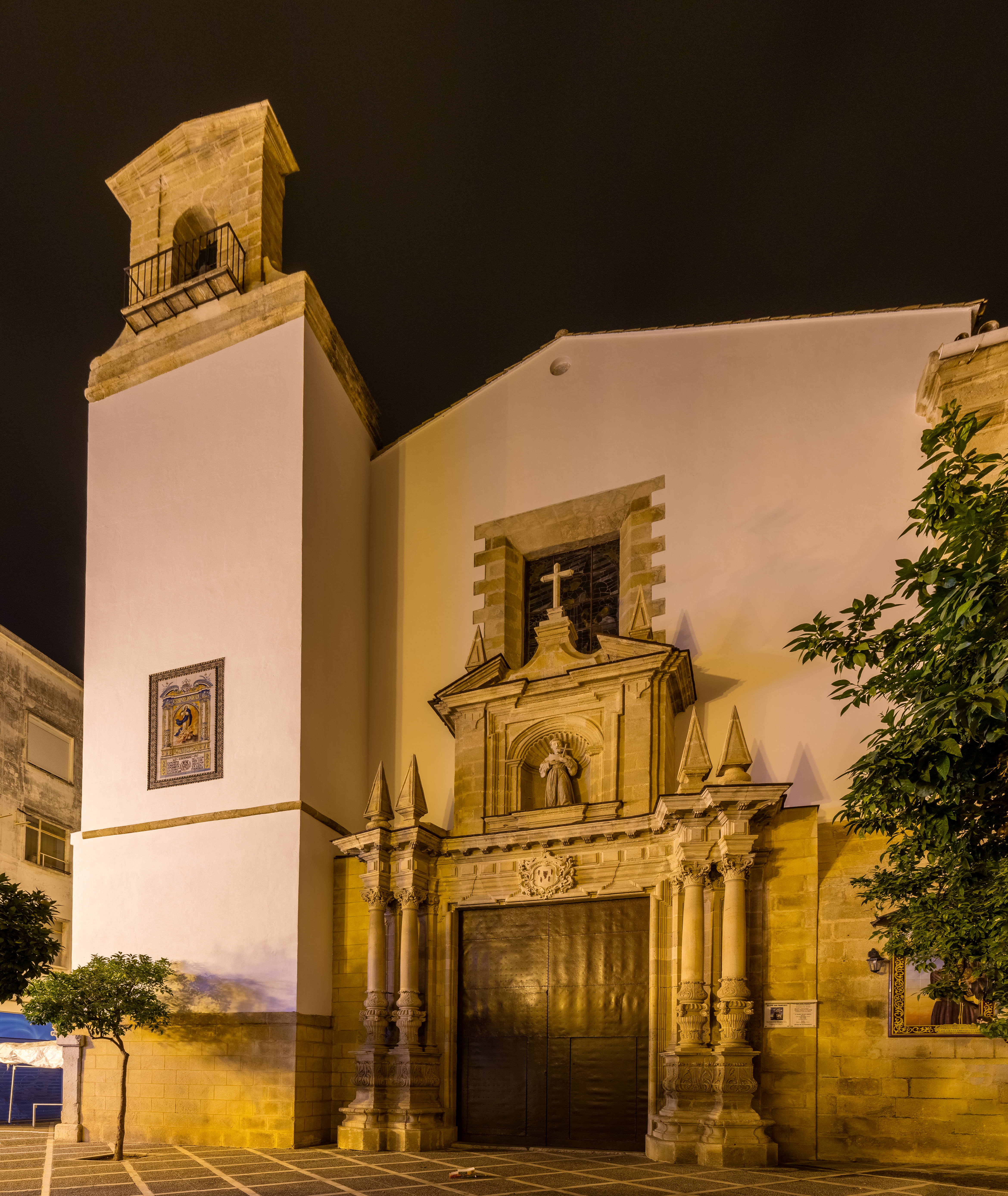 Monastery of San Francisco, Jerez de la Frontera, Spain